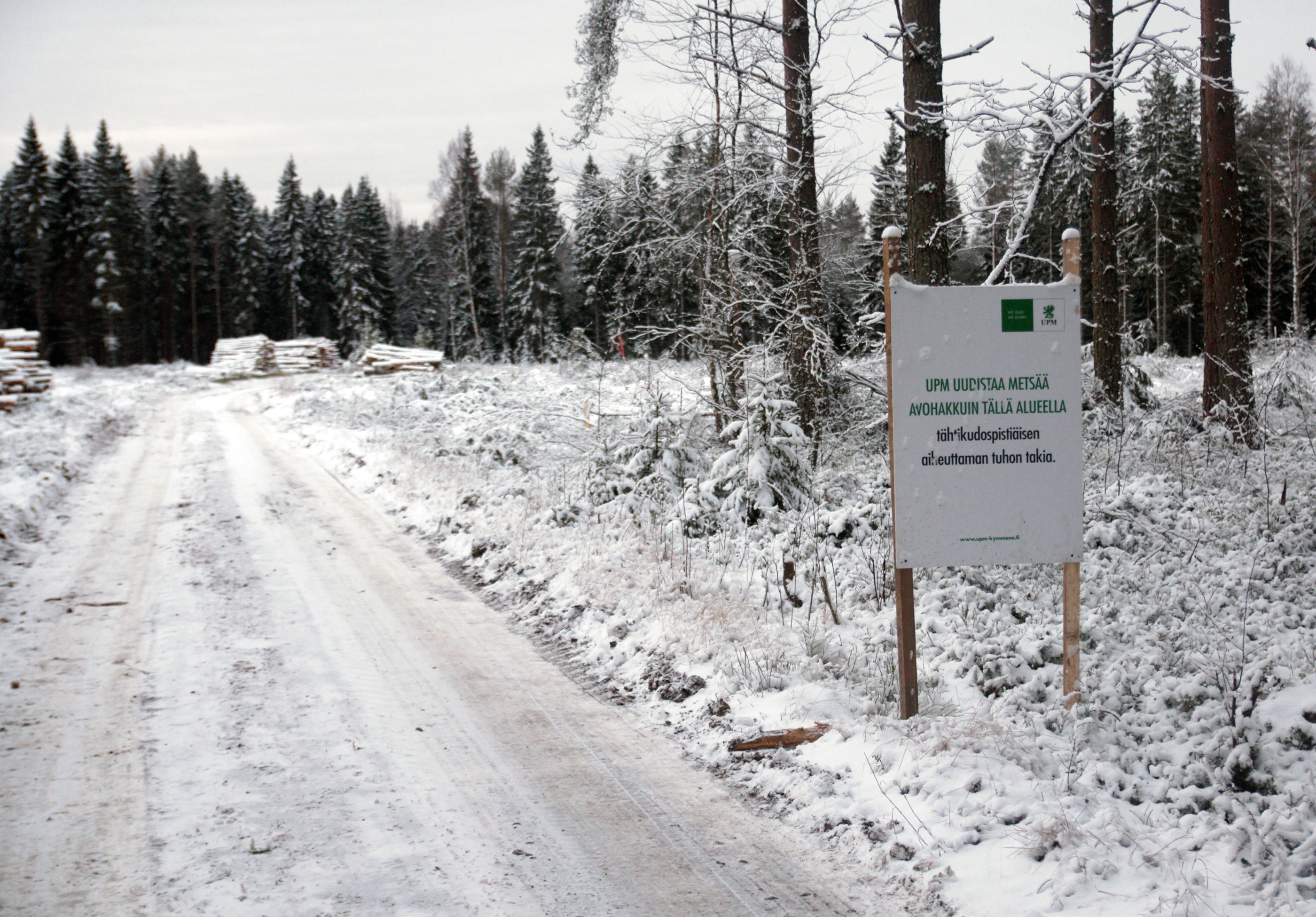 Sign, that says "UPM uudistaa metsää avohakkuin tällä alueella tähtikudospistiäisen aiheuttaman tuhon takia." (="UPM clearcuts forest in this area because of the destruction caused by Acantholyda posticalis".)